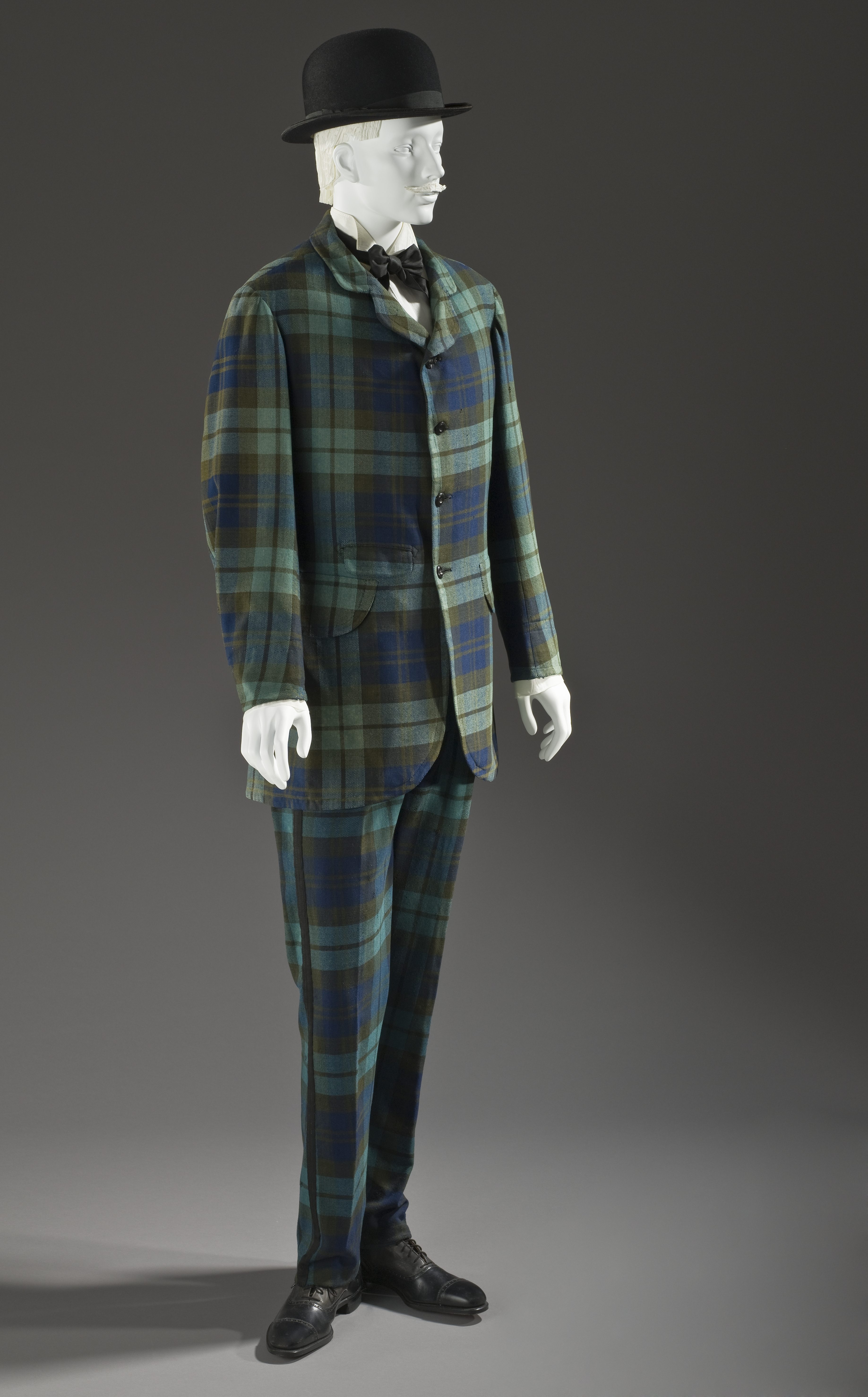 Man’s two-piece lounge suit, England, 1875-1880. Wool twill, tartan pattern. Bowler hat, United States, wool felt, 1875-1890.